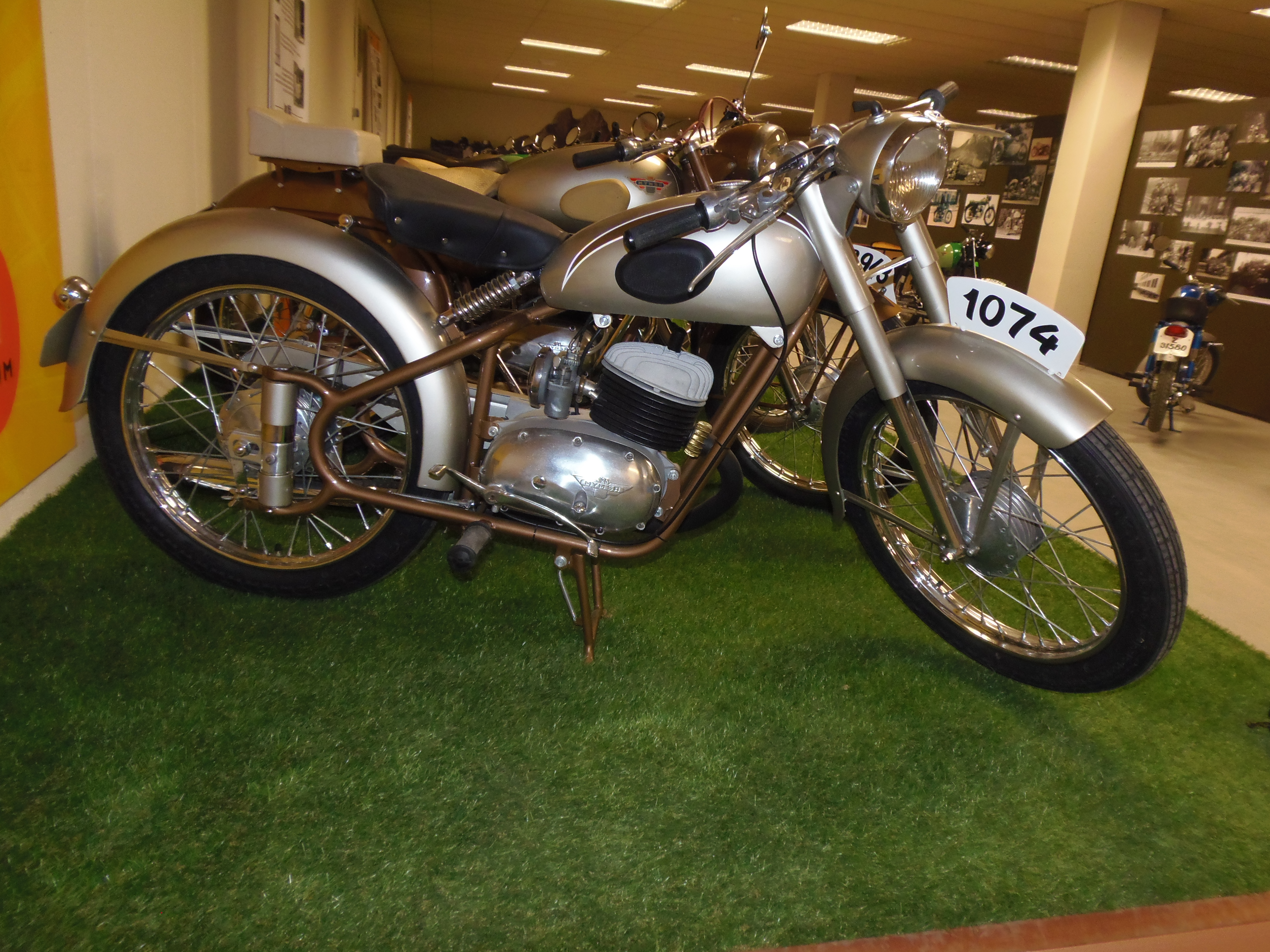 The first Mymsa prototype, an Ardilla 125 with a Mymsa 125cc engine. 1952